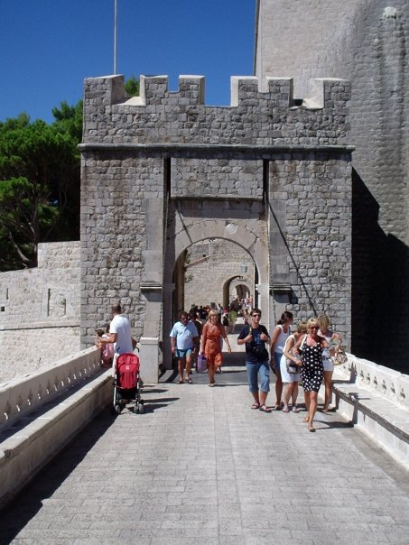 Gates of Ploče, Dubrovnik, Croatia